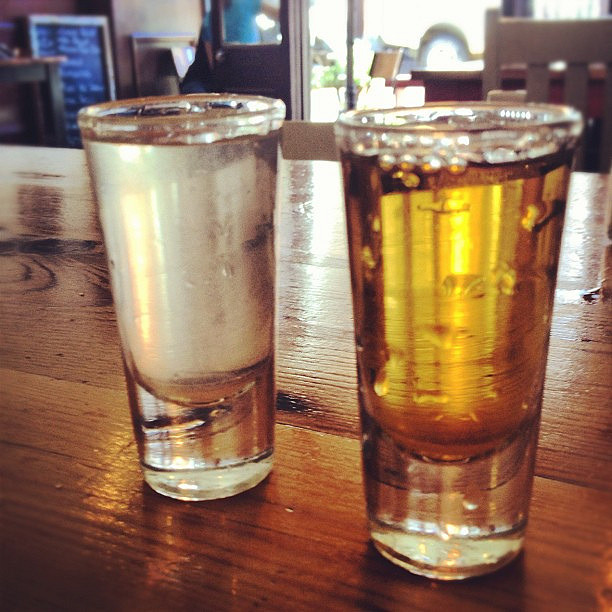 The infamous "Pickleback"